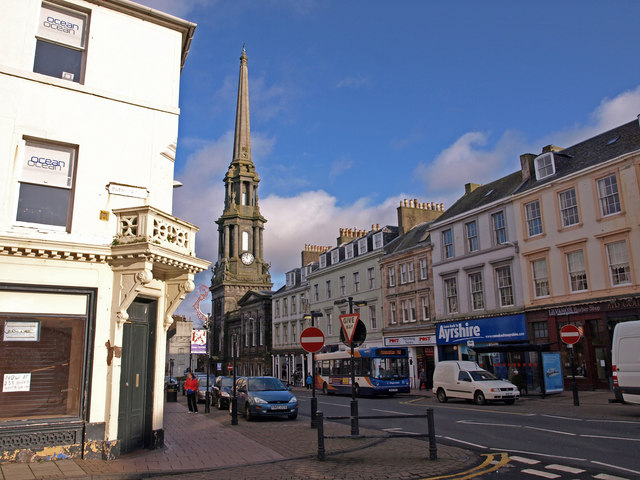 Cathcart St. meets New Bridge St., Ayr The building on the left of frame now empty, the town hall further down New Bridge St.